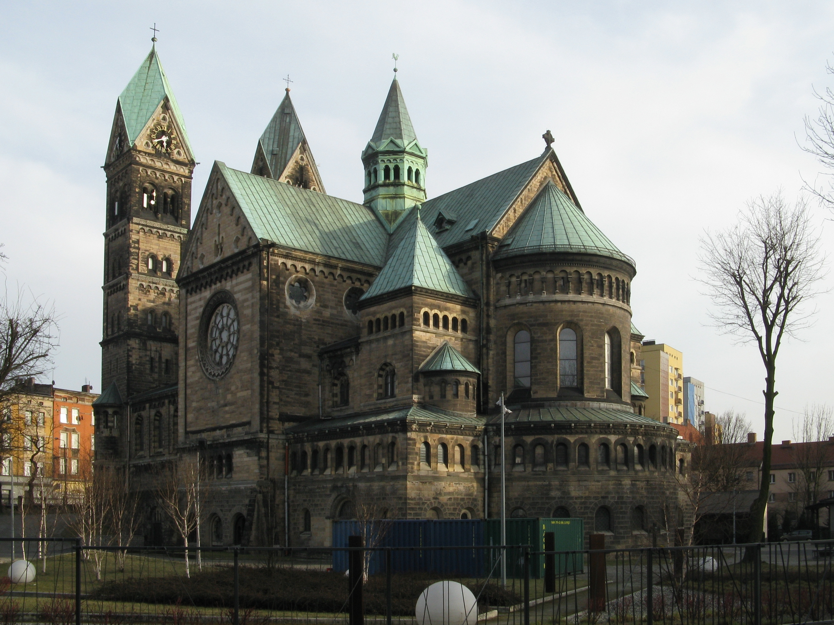 St Hyazinth church Bytom, Poland.